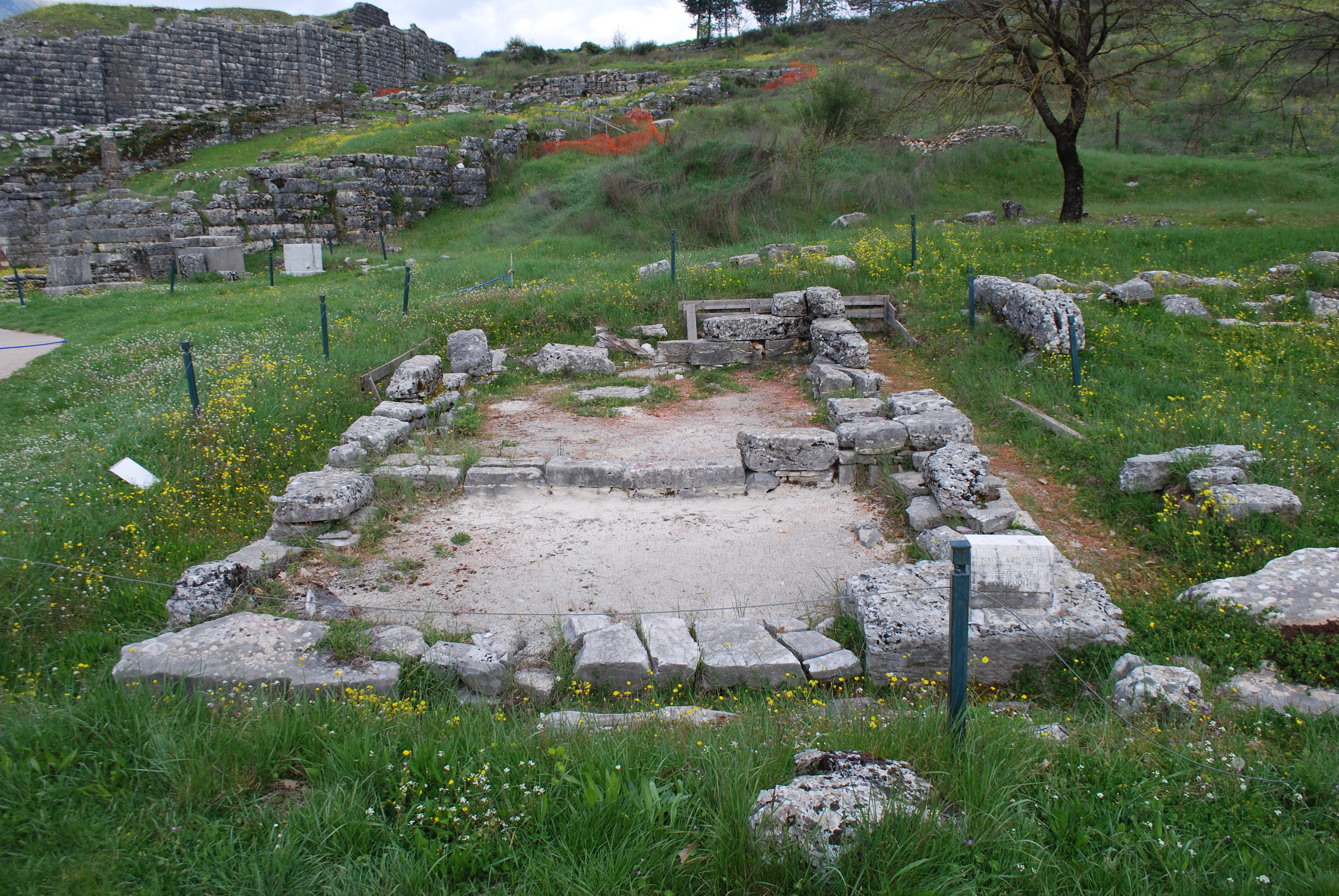 Temple of Aphrodite